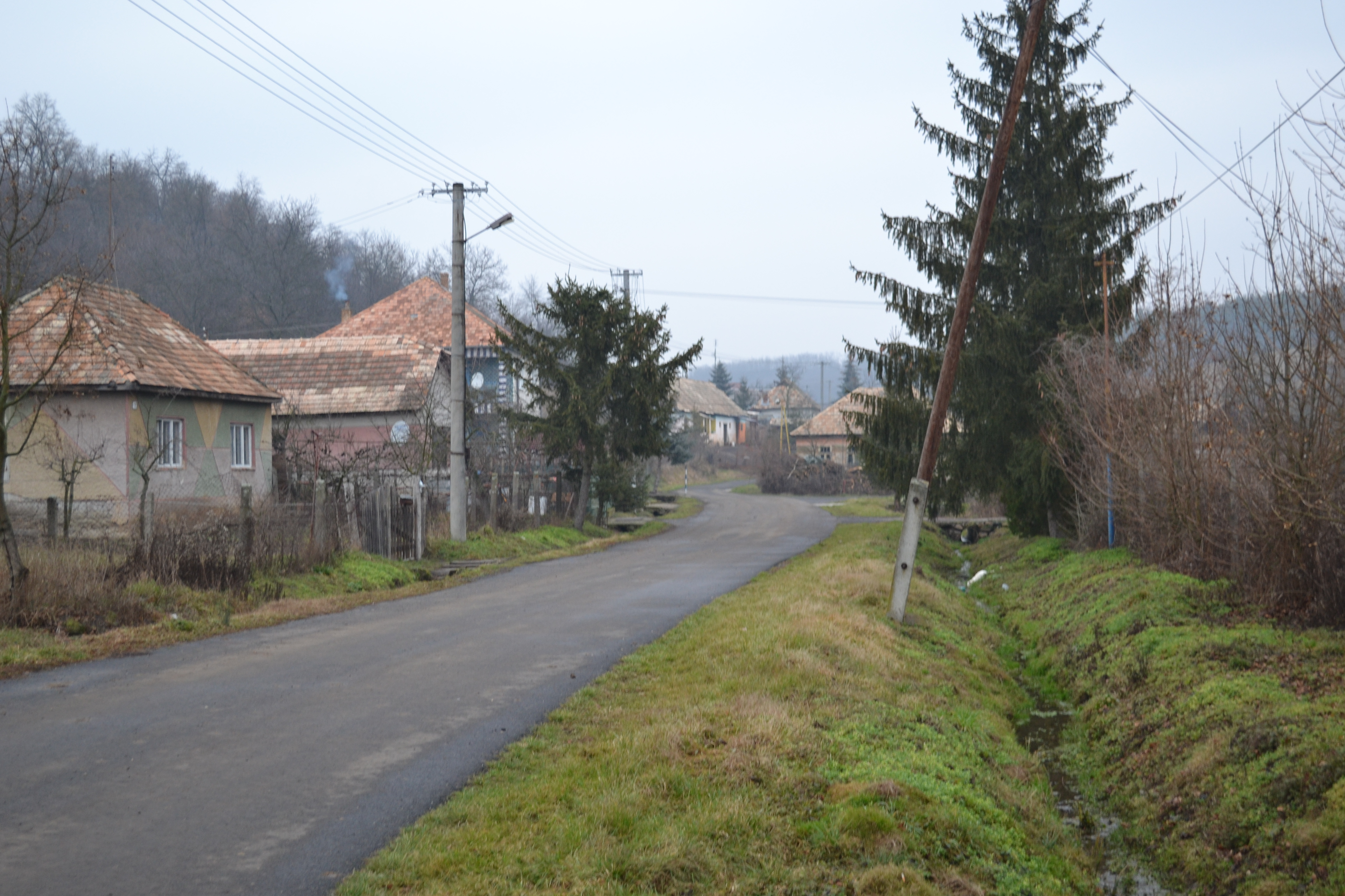 Street of the village GlabušovceSlovenčina: Ulica obce Glabušovce